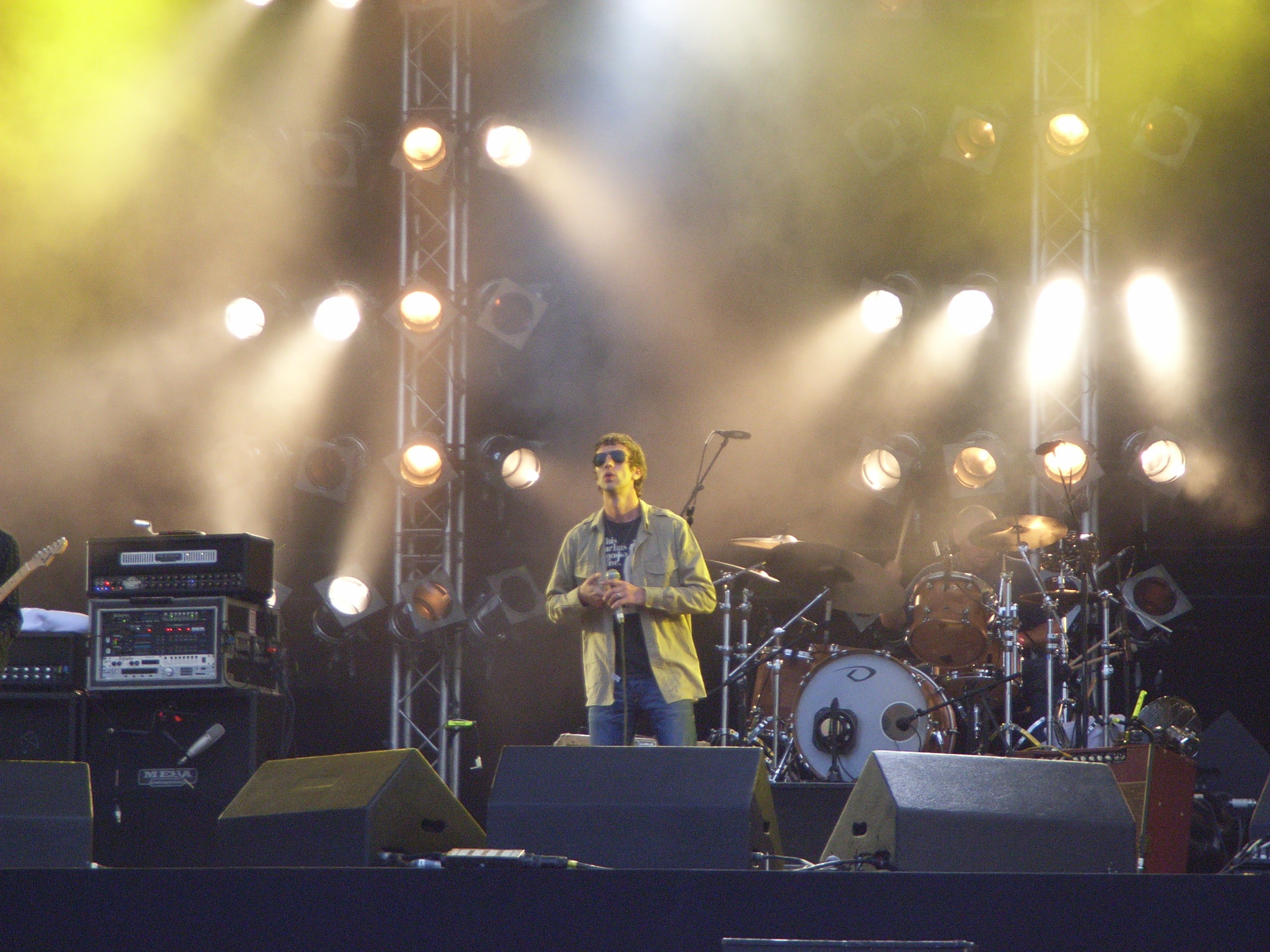 Singer Richard Ashcroft of the Verve at Pinkpop 2008